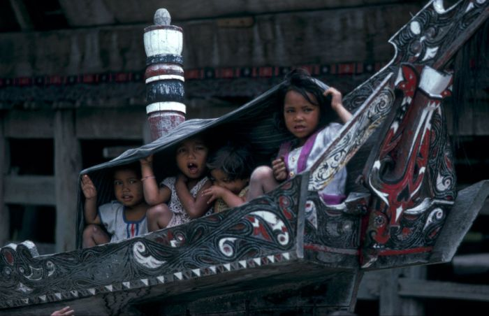 Playing Toba Batak children in a proa at Simanindo